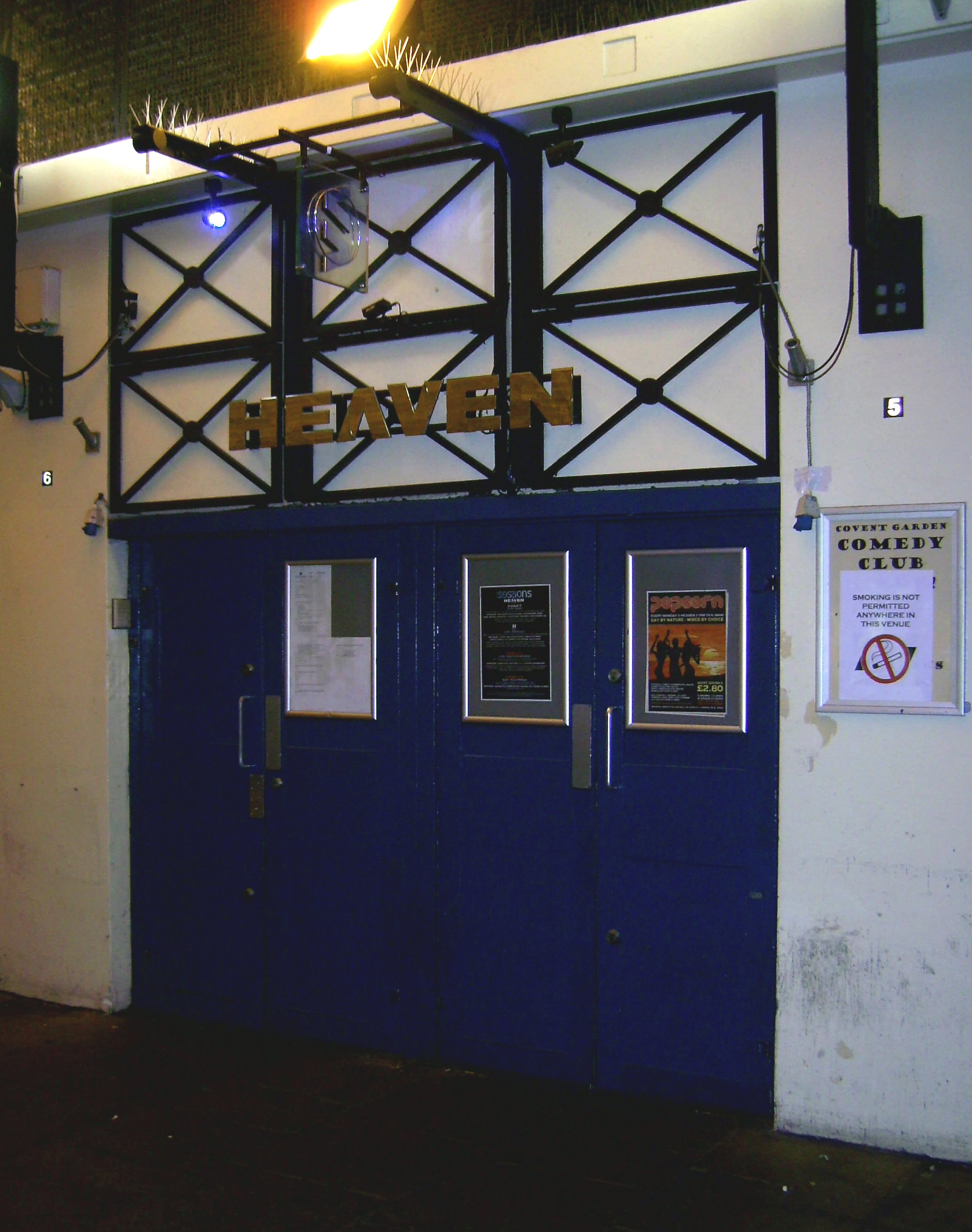 Photograph of entrance to Heaven taken by Nick Cooper 8 September, 2007.